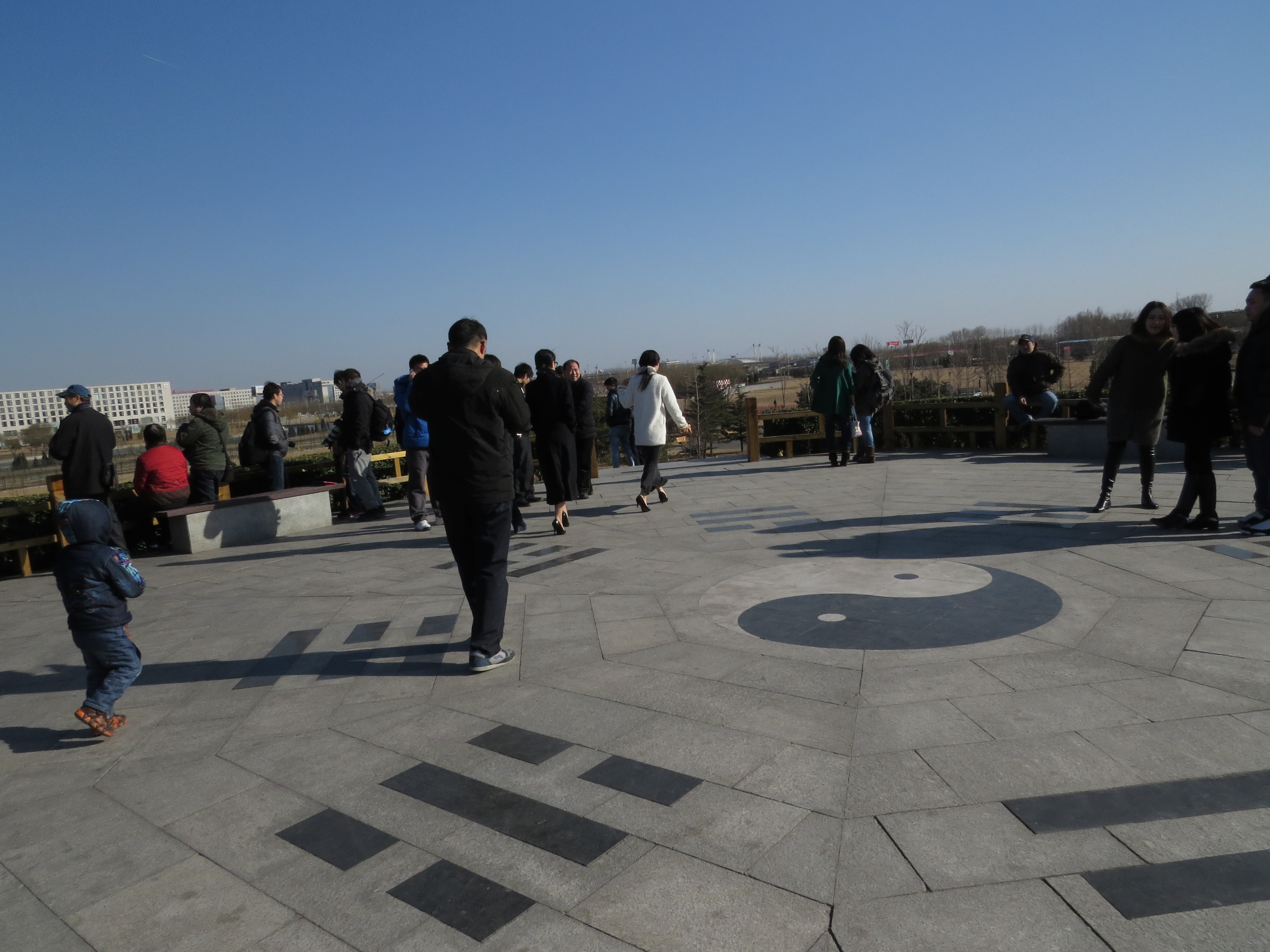 This observation deck is part of Xihuyuan Park (lit. West Lake Park), a culture park near Beijing Airport, which was built with Terminal 3. A flock of plane spotters, of course, but what are those girls...?